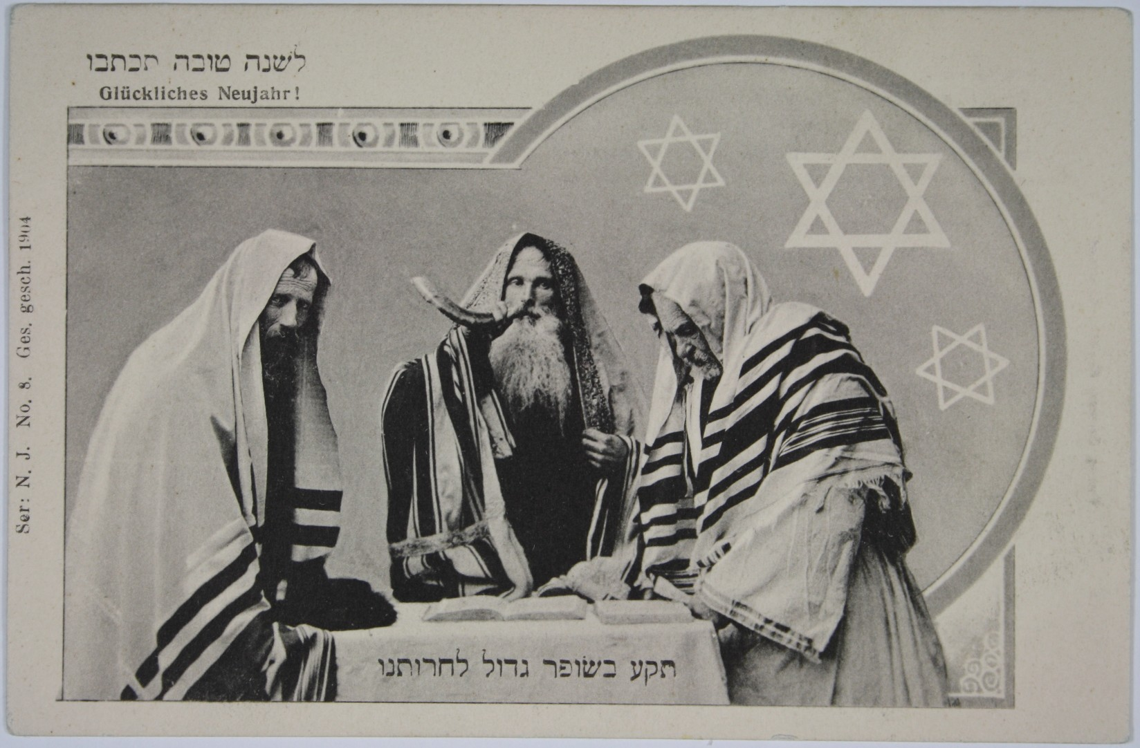 Jewish New Year cards